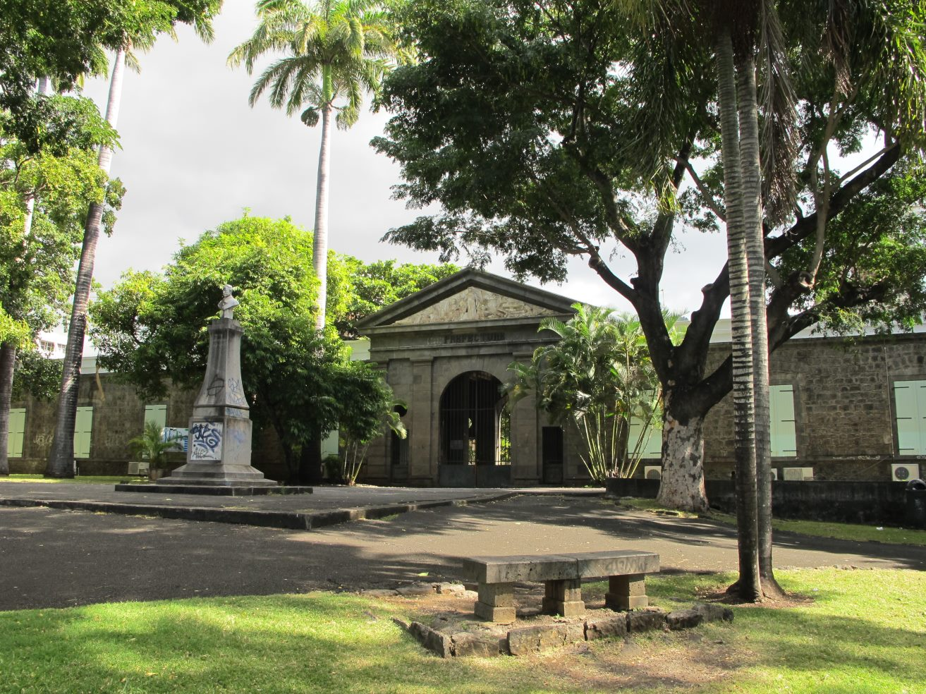 Saint-Denis: Second Prefecture